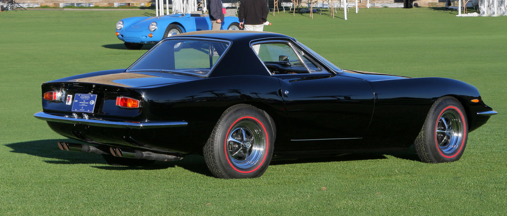 1966 Griffith 600 at the Third Annual Desert Classic Concours d'Elegance, Feb 28 2010